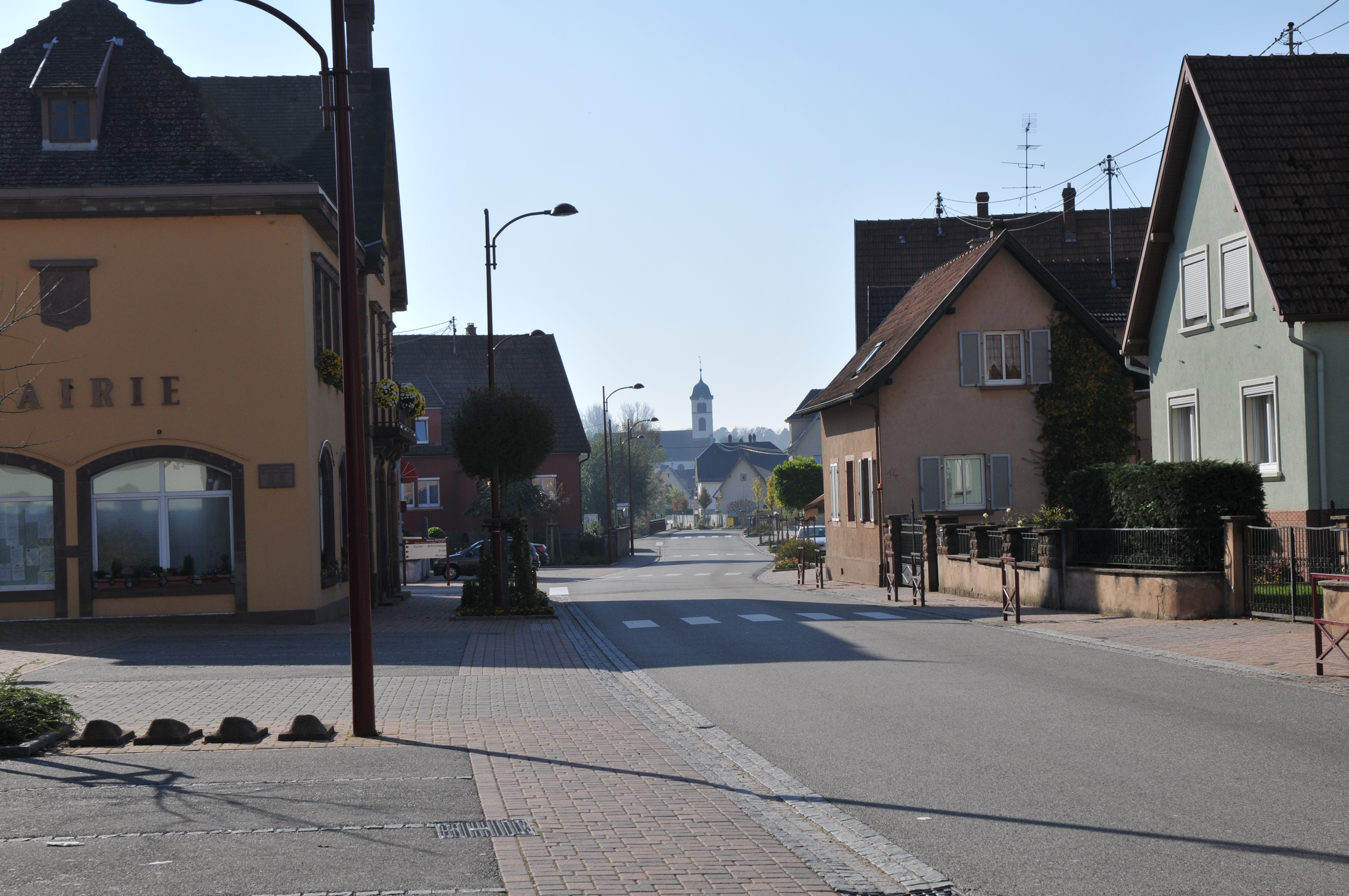 View of the center of the town.